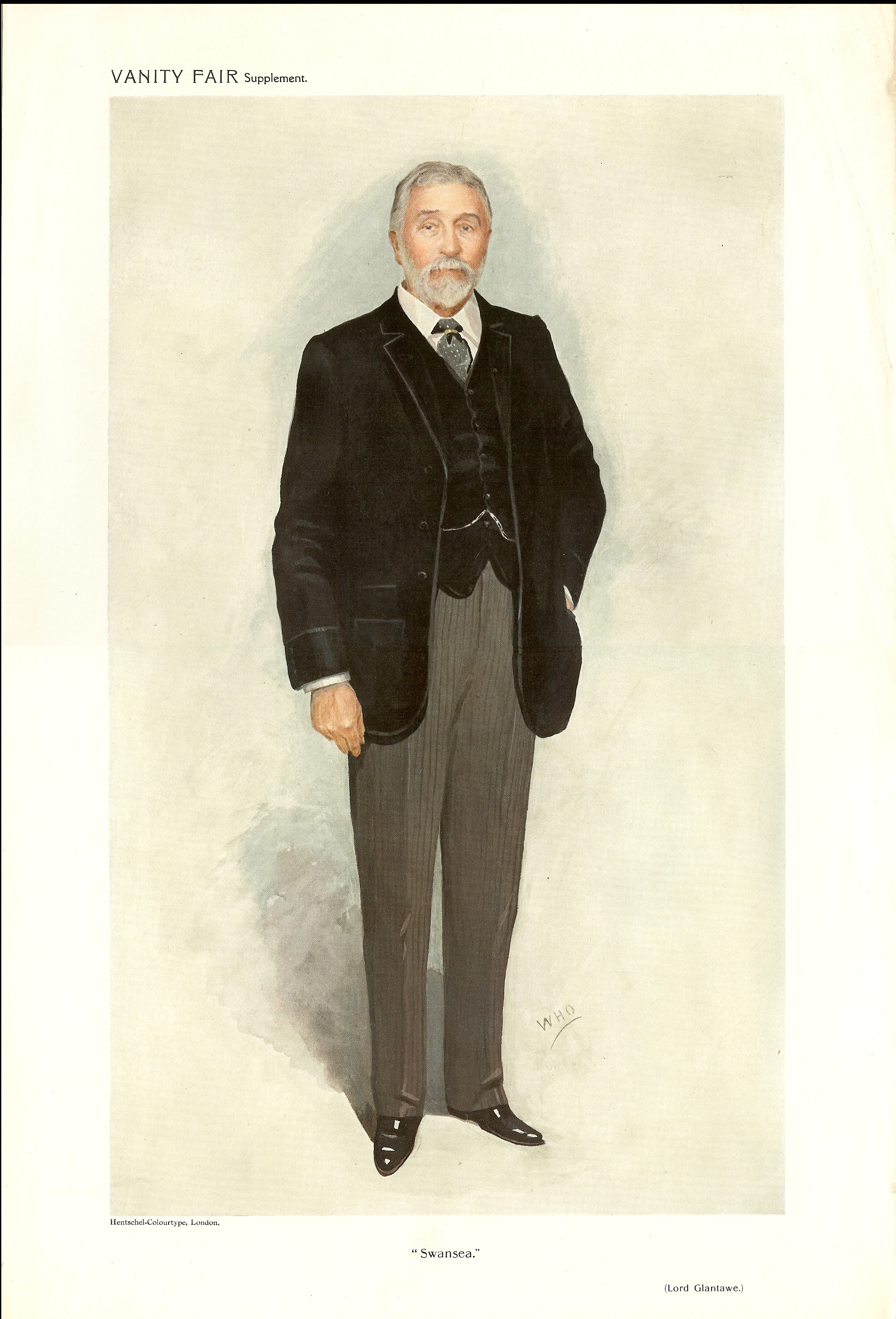 Lord Glantawe Vanity Fair Caricature